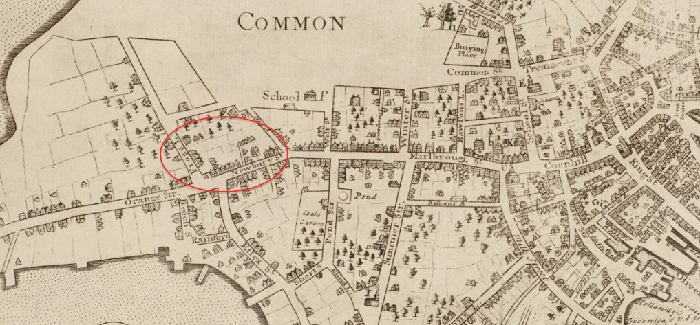 Detail of 1723 map of Boston. Oval indicates vicinity of White Horse Tavern.